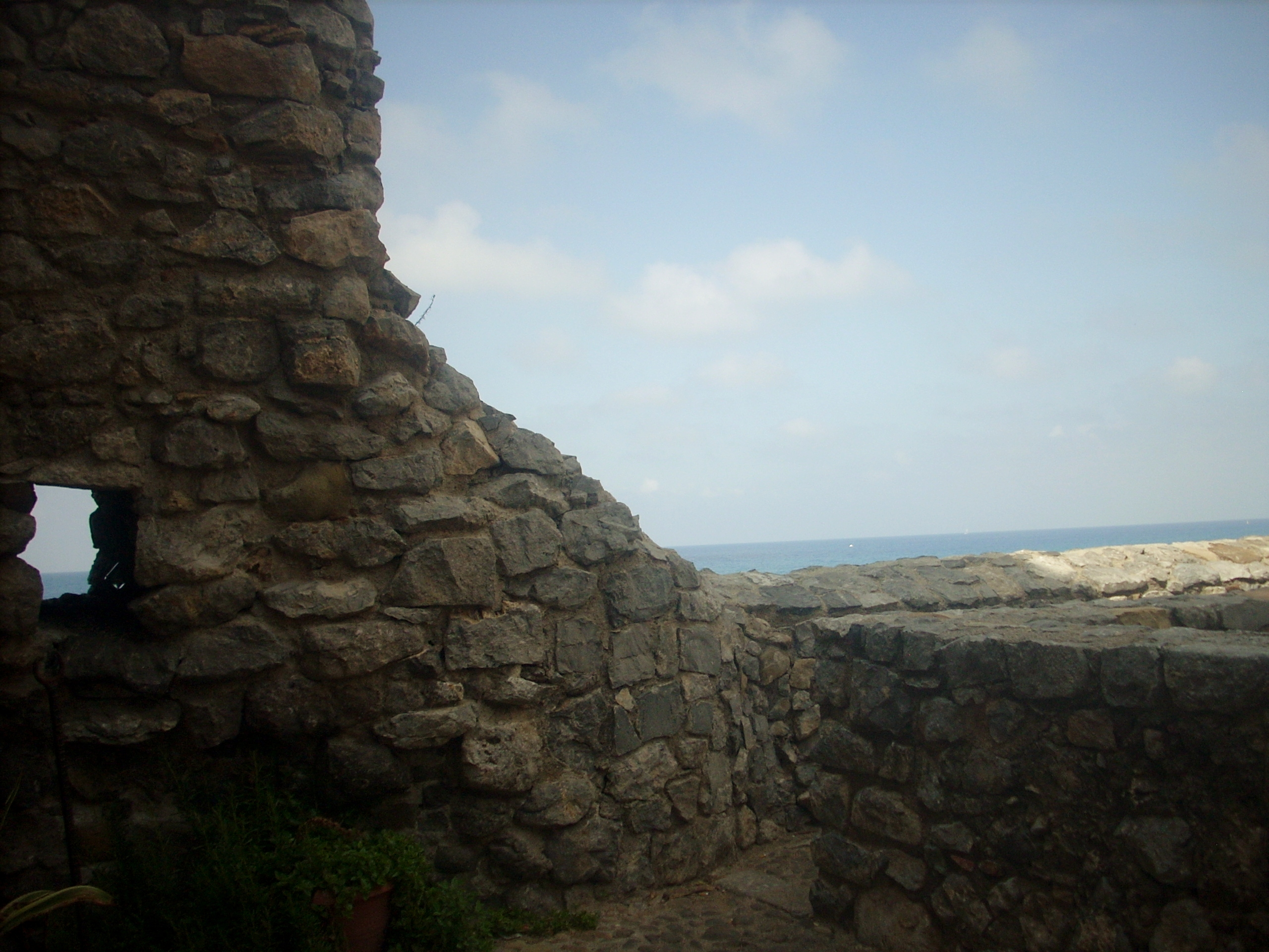 megalithic wall in Cefalù, Sicily dating back to 500-400 BC